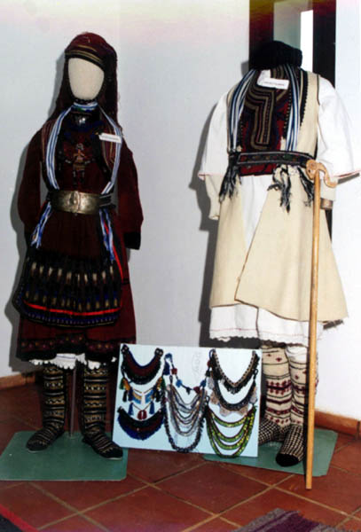 Traditional costumes Proso, image from the Folklore Museum, Drama, East Macedonia, Greece